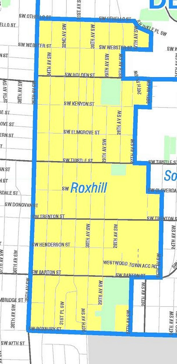 Map of Seattle's Roxhill neighborhood. Like the other maps from the Seattle City Clerk's Neighborhood Map Atlas, this is not an official map; in particular, borders are not official. Disclaimer: The Seattle Neighborhood Atlas, which the Seattle Clerk's Office has placed in the public domain (as confirmed by OTRS ticket 2008033110016048) contains some general commentary on the maps, "About Maps", which should typically be linked as an accompaniment to these maps to (in their words) "minimize the numerous 'complaints' or comments by users who feel it necessary to point out how the Clerk's Office is 'wrong' about a certain section of town." In particular, "About Maps" says that the atlas "is designed for subject indexing of legislation, photographs, and other documents in the City Clerk's Office and Seattle Municipal Archives" and "is not designed or intended as an 'official' City of Seattle neighborhood map. There are many different ideas of what neighborhood districts exist in Seattle and what their names are…"